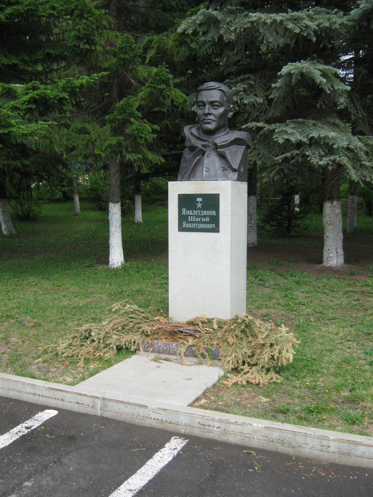 Yamaletdinov Shagiy Yamaletdinovich monument in Beloretsk